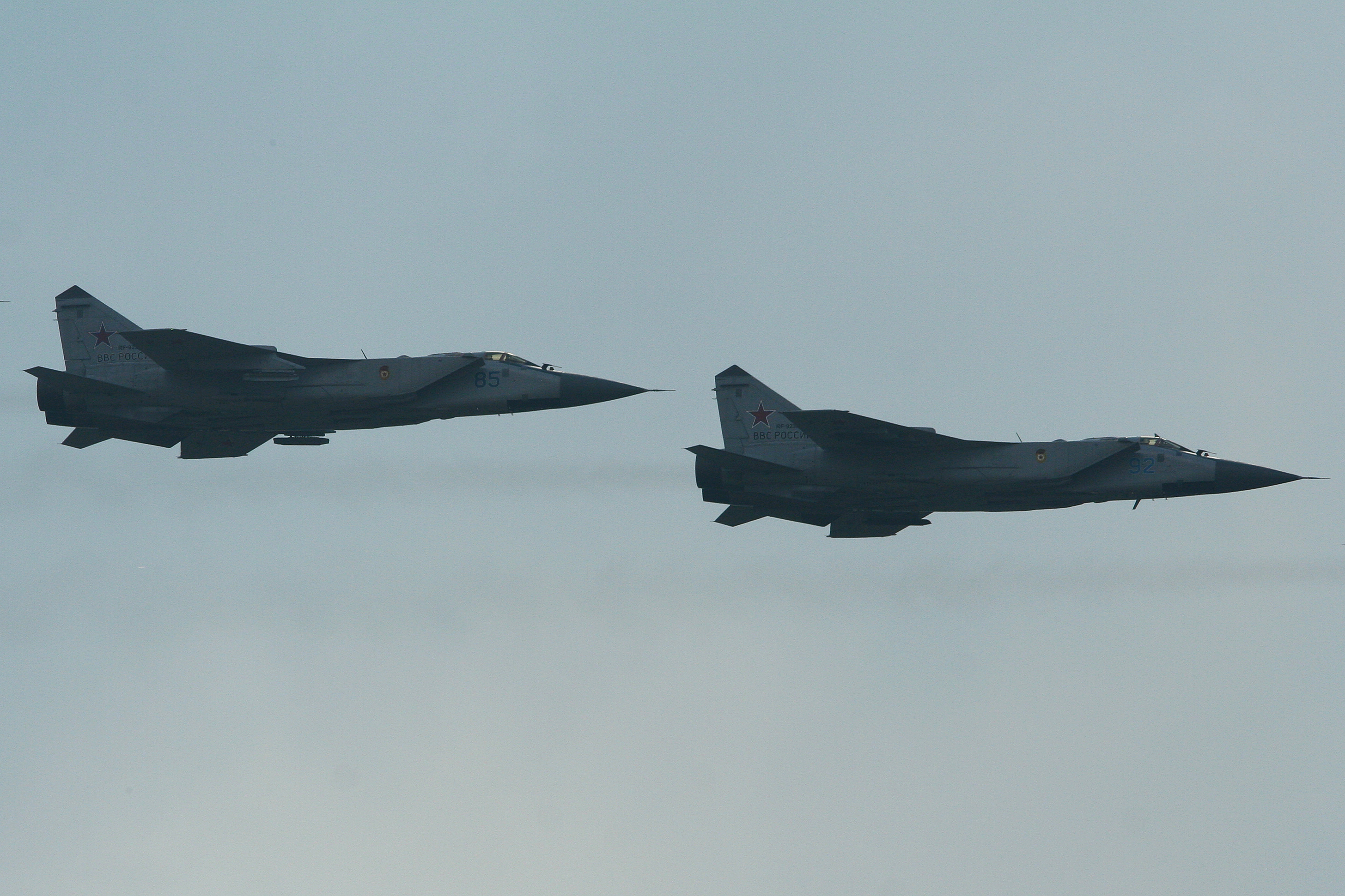 The third fast jet formation flyby was carried out by four MiG-31 Foxhounds from 4.GTsPAV i VI based at Savasleyka. This shot shows the second and third aircraft in the formation:- MiG-31BM '92380 / 92 blue' and MiG-31B '92382 / 85 blue'. The 'BM' variant is an earlier aircraft upgraded to MiG-31B standard. Russian Air Force 100th Anniversary Airshow. Zhukovsky, Russia. 12-8-2012